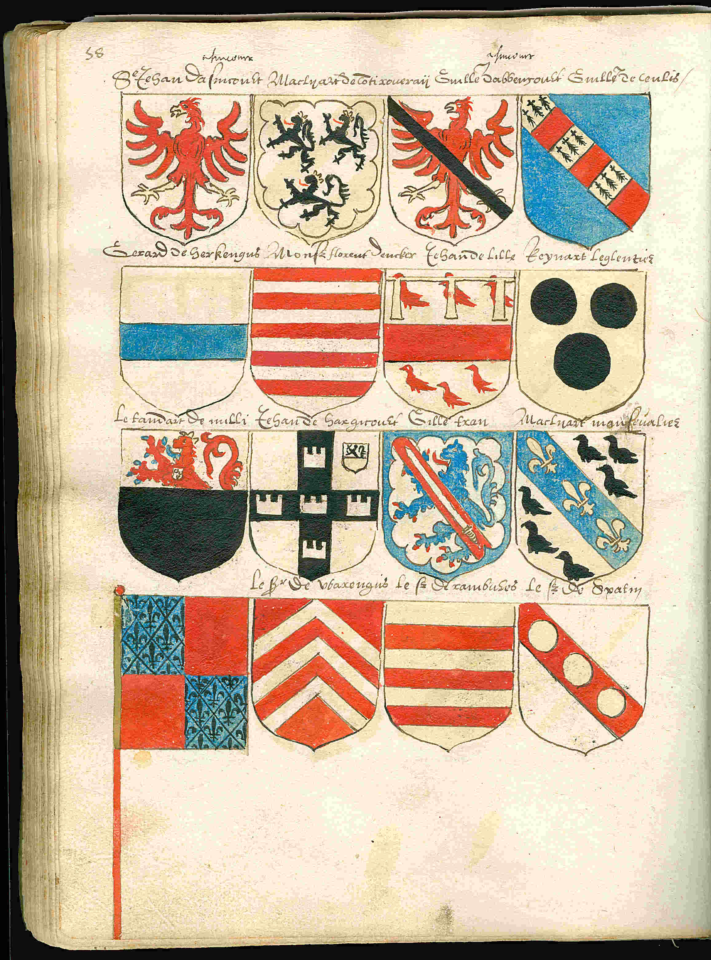 Page 58 from a copy of the Beyeren armorial / Wapenboek Beyeren from ca. 1600. The original Beyeren armorial from 1405 can be viewed at the website of the KB